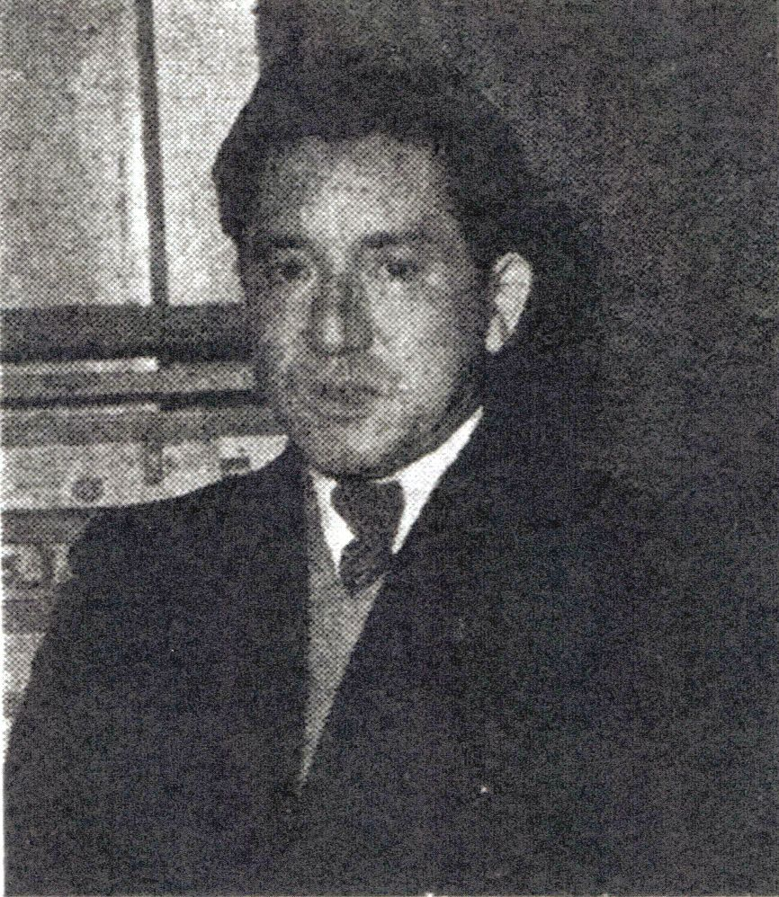 Michio Takeyama